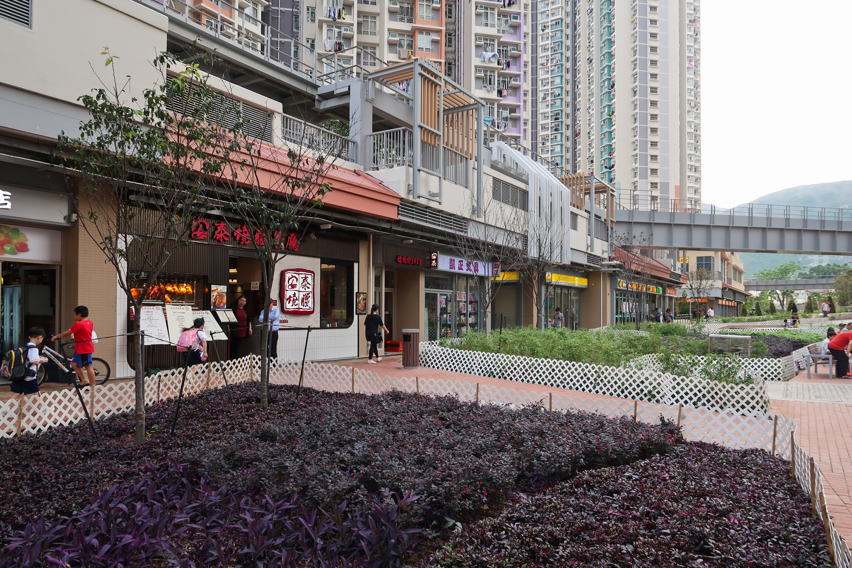 Yan Tin Estate shops